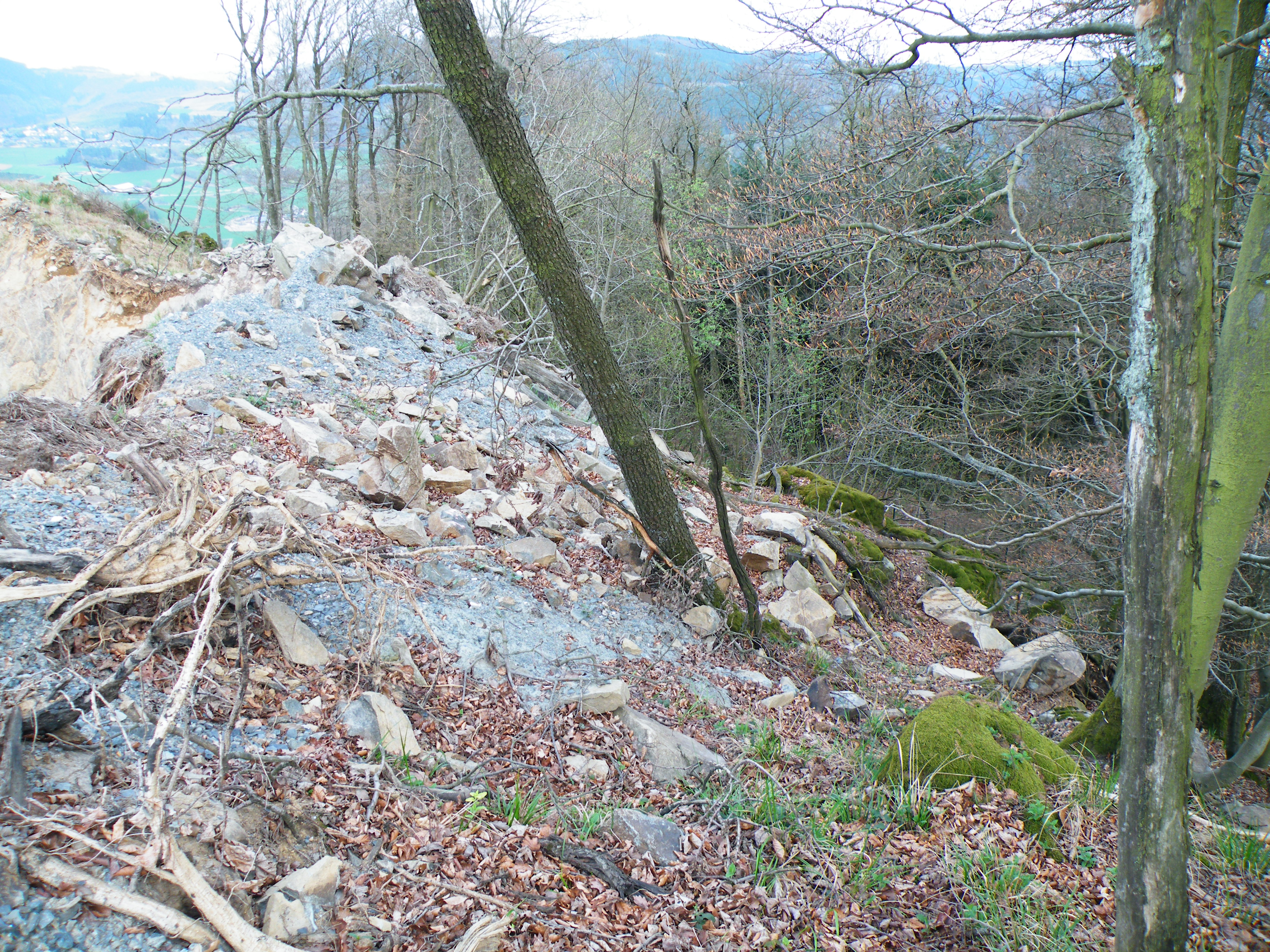 NSG Auf der Burg nördlich Bestwig-Berlar im Sauerland NRW.